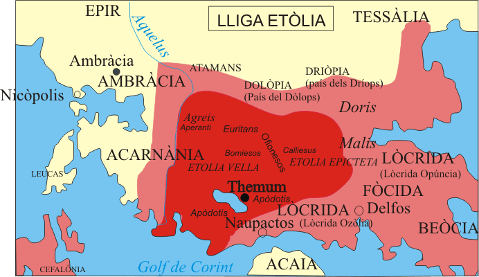 Map of Aetolia, labels in catalan, self-made image.